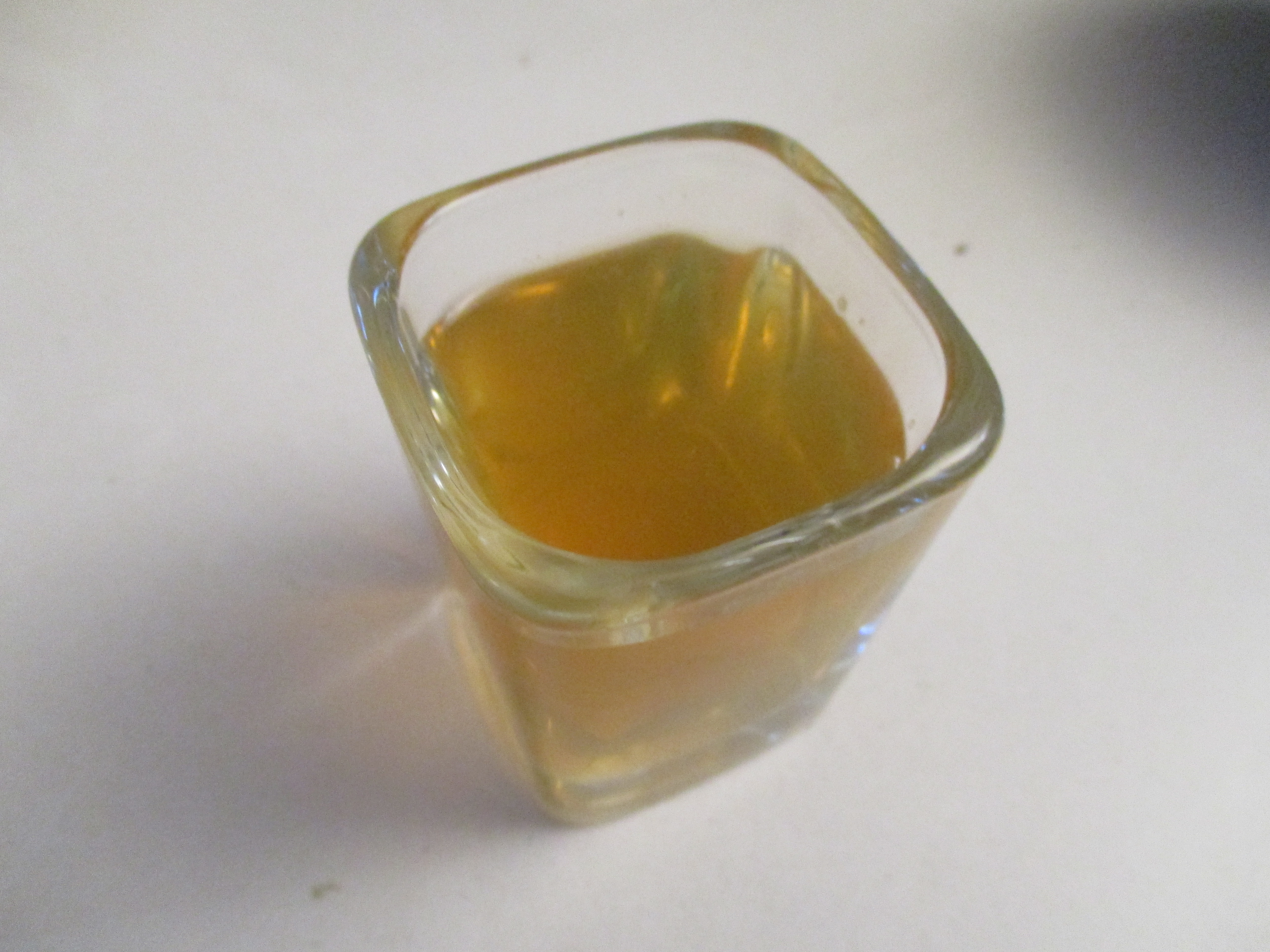 Brewed 3 min. "Green Earl Greyer"